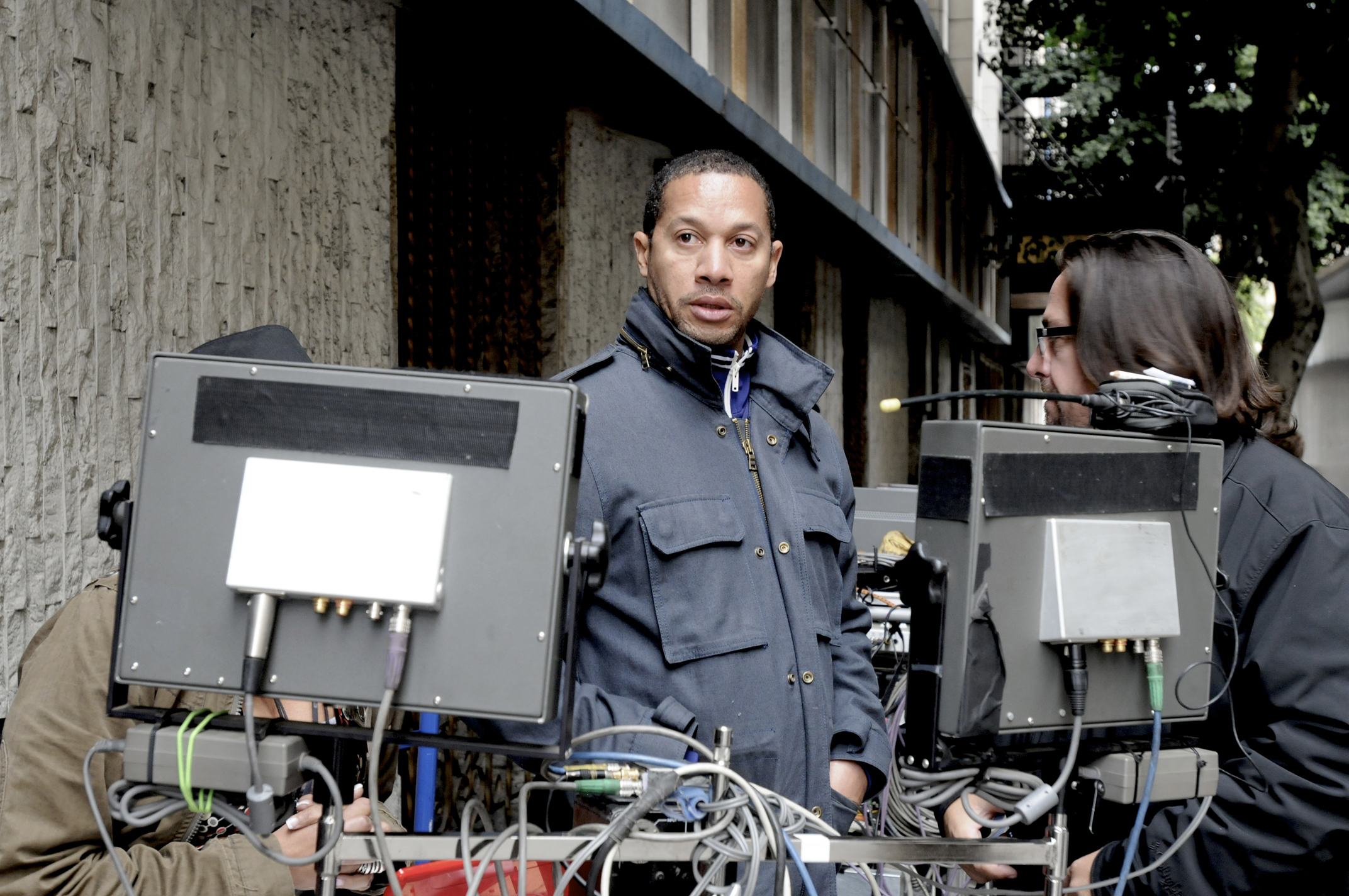 Paul Hunter